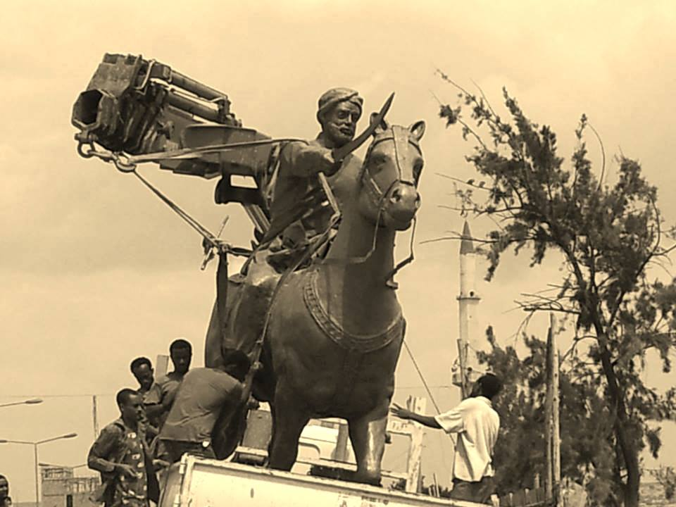 Mohammed Abdullah Hassan's statue been removed from the Somali capital after the Siad Barre fled